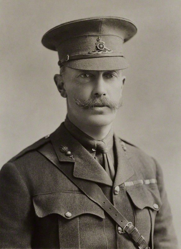 The Earl of Stradbroke in 1915.